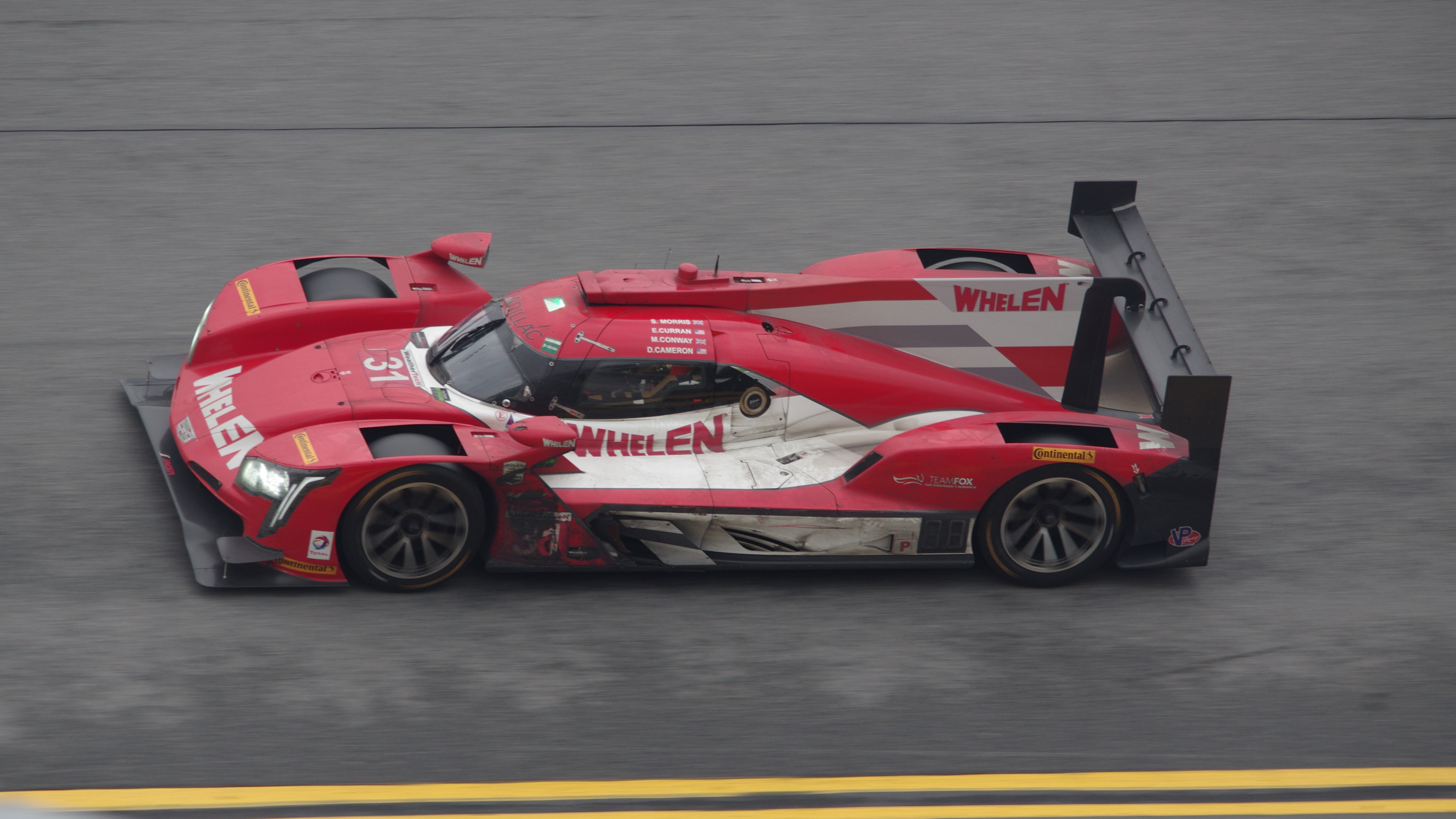 Daytona 24, 2017 - #31 Whelen Cadillac Dpi V.R - Cameron, Curran, Conway, Morris